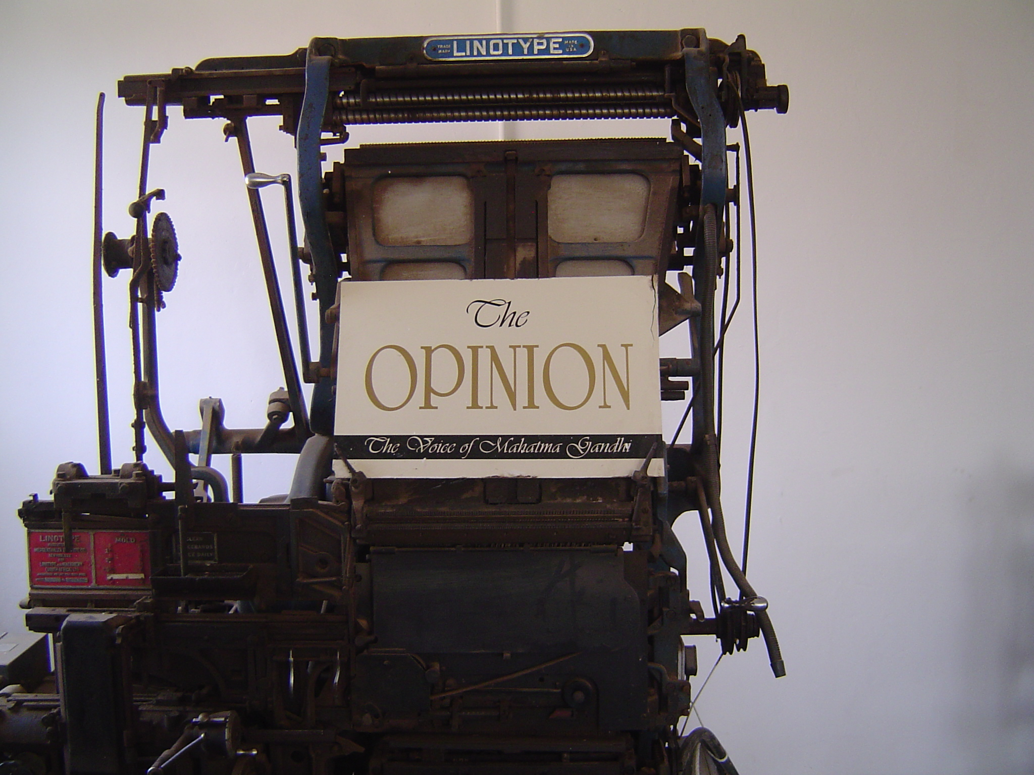 The Linotype machine used by M.K Gandhi to bring out Indian Opinion Newspaper in Durban